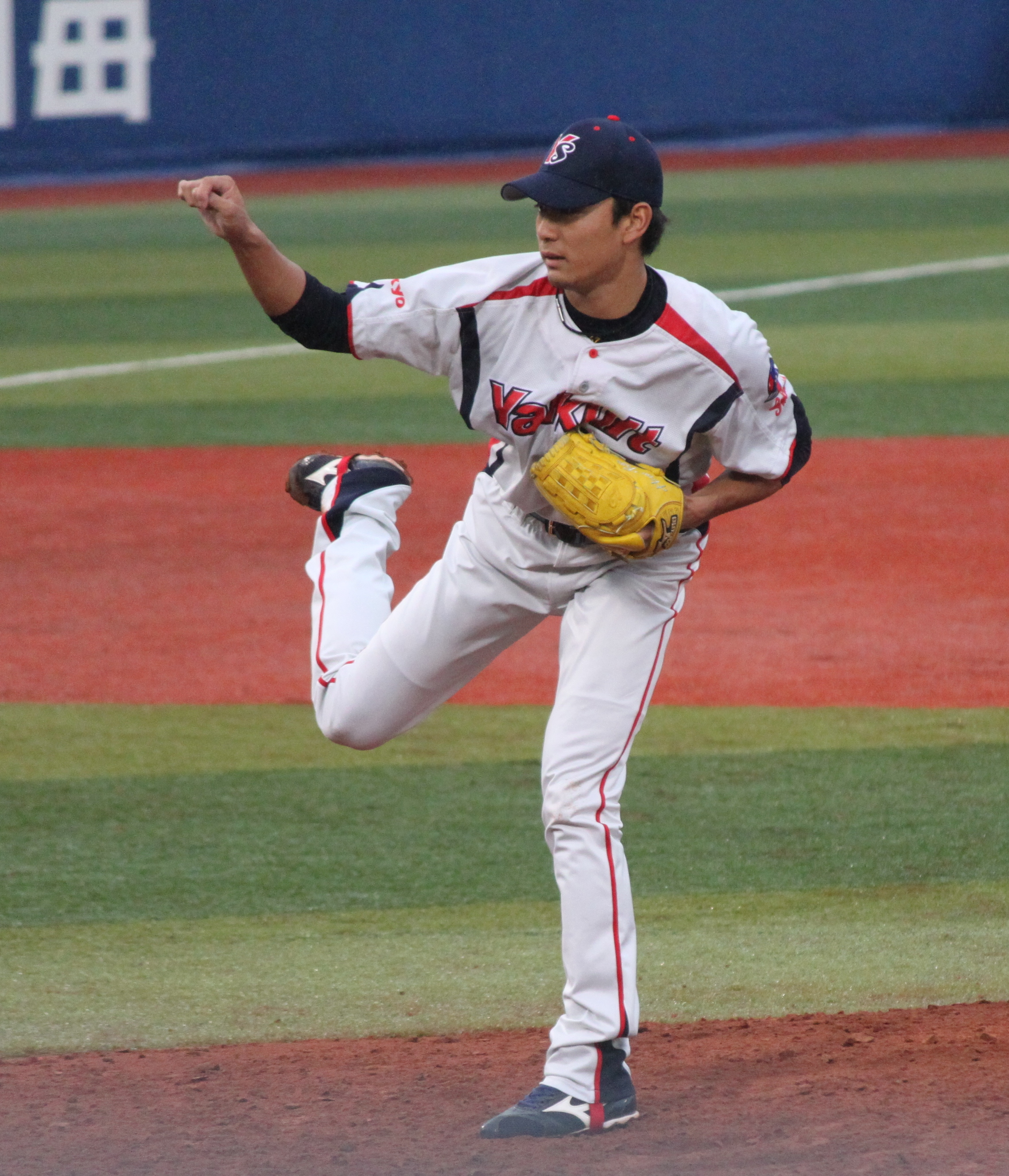 Ryo Hirai, pitcher of the Tokyo Yakult Swallows, at Yokohama Stadium.